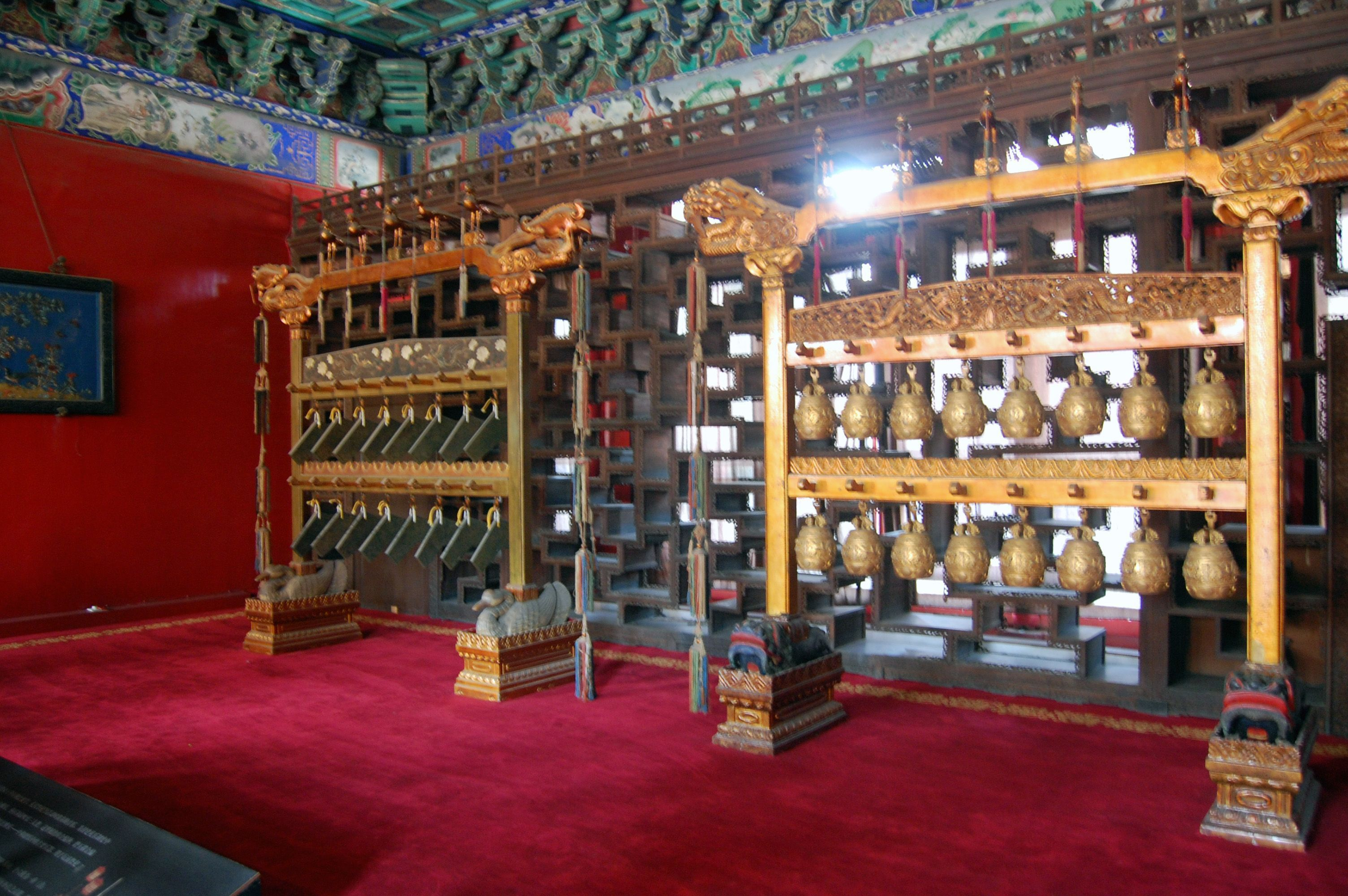 Art collection inside the Forbidden City in Beijing